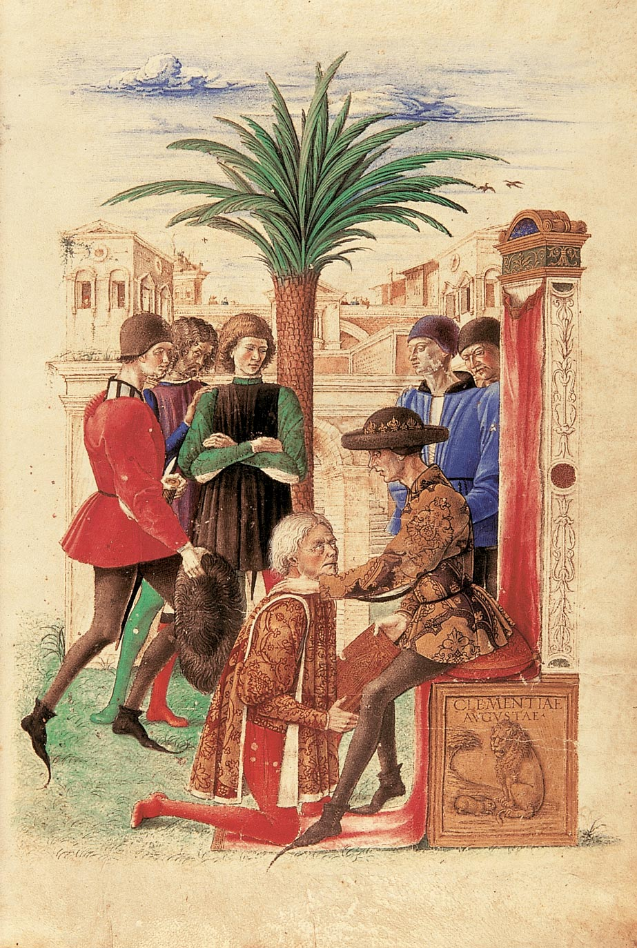 Jacopo Antonio Marcello presents the manuscript, a translation of the Geography of Strabo, to Rene d'Anjou.